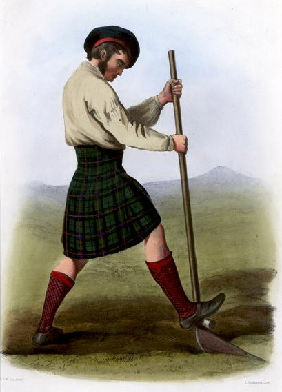 "Rose". A plate illustrated by R. R. McIan, from James Logan's The Clans of the Scottish Highlands, published in 1845.